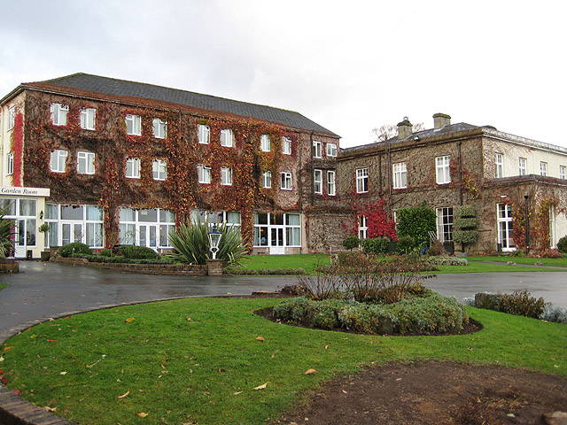 Oak Suite, The Chase Hotel Function room at the privately owned hotel, once a Georgian country house. Craft Fair in progress today.